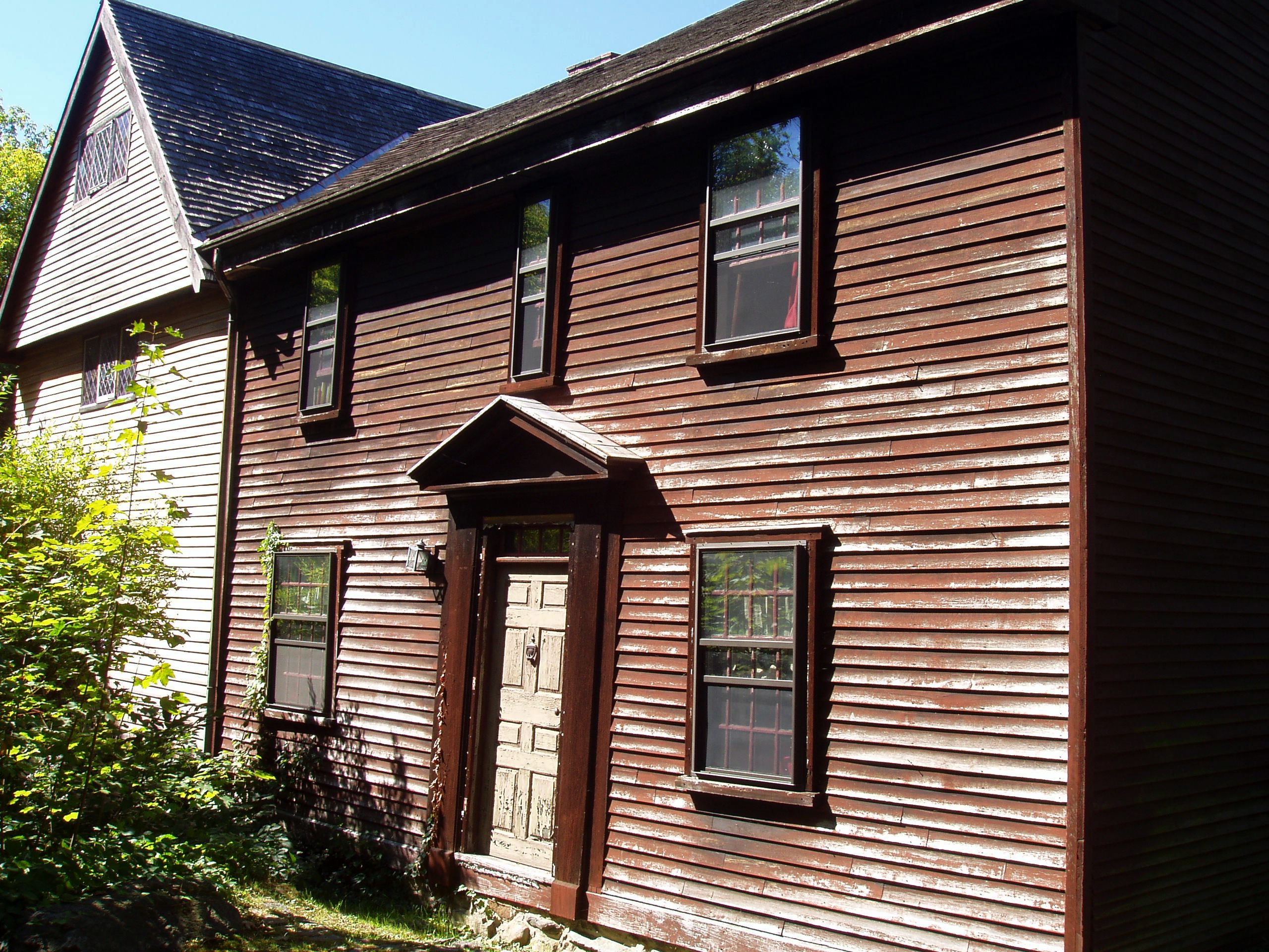 Browne House in Watertown, Massachusetts, United States, on the listing of the National Register of Historic Places